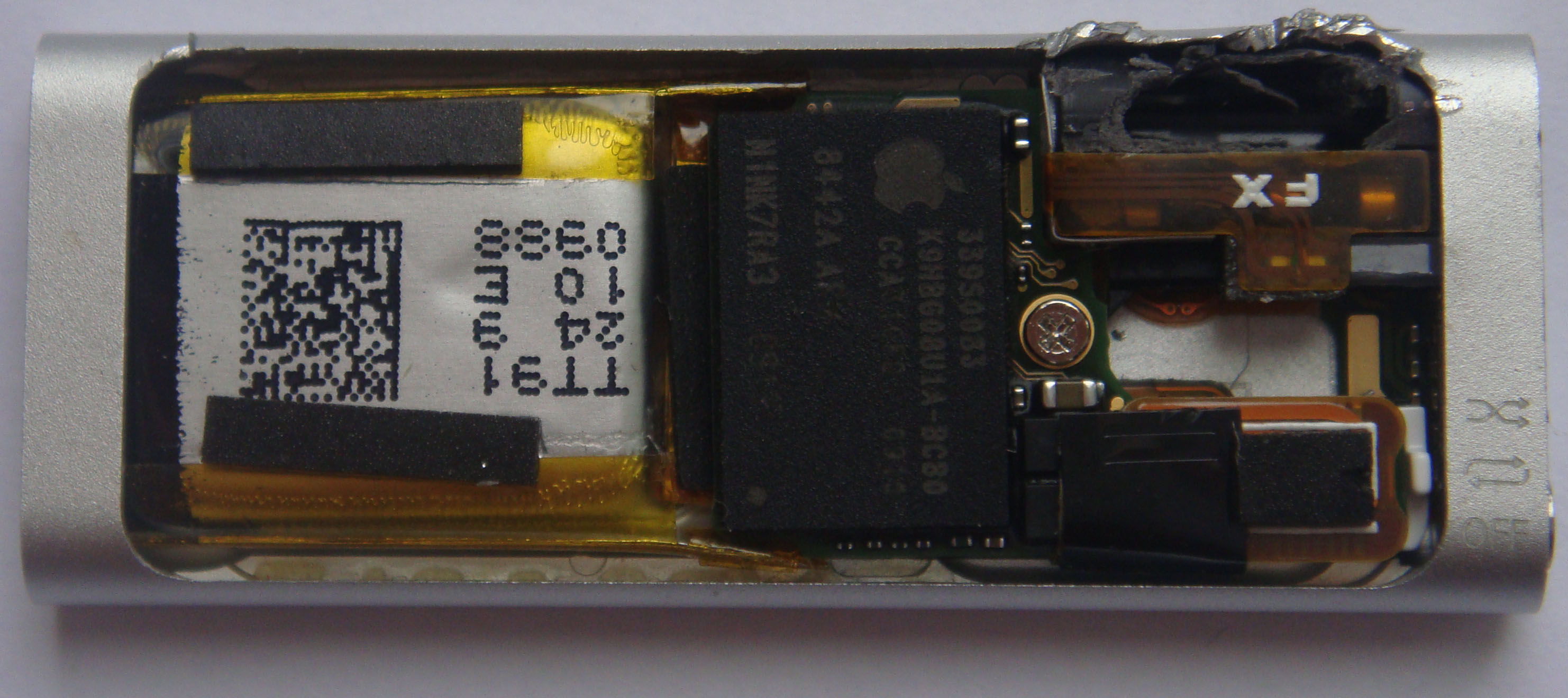 ipodshuffle_inside